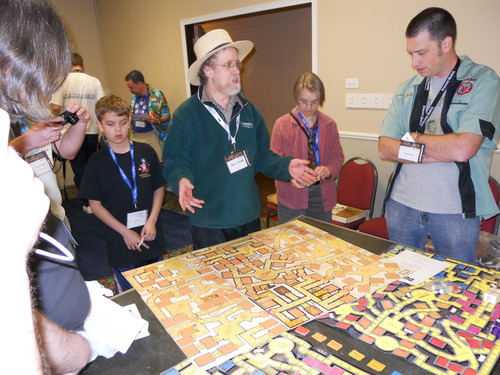 Dave presenting Dungeons!